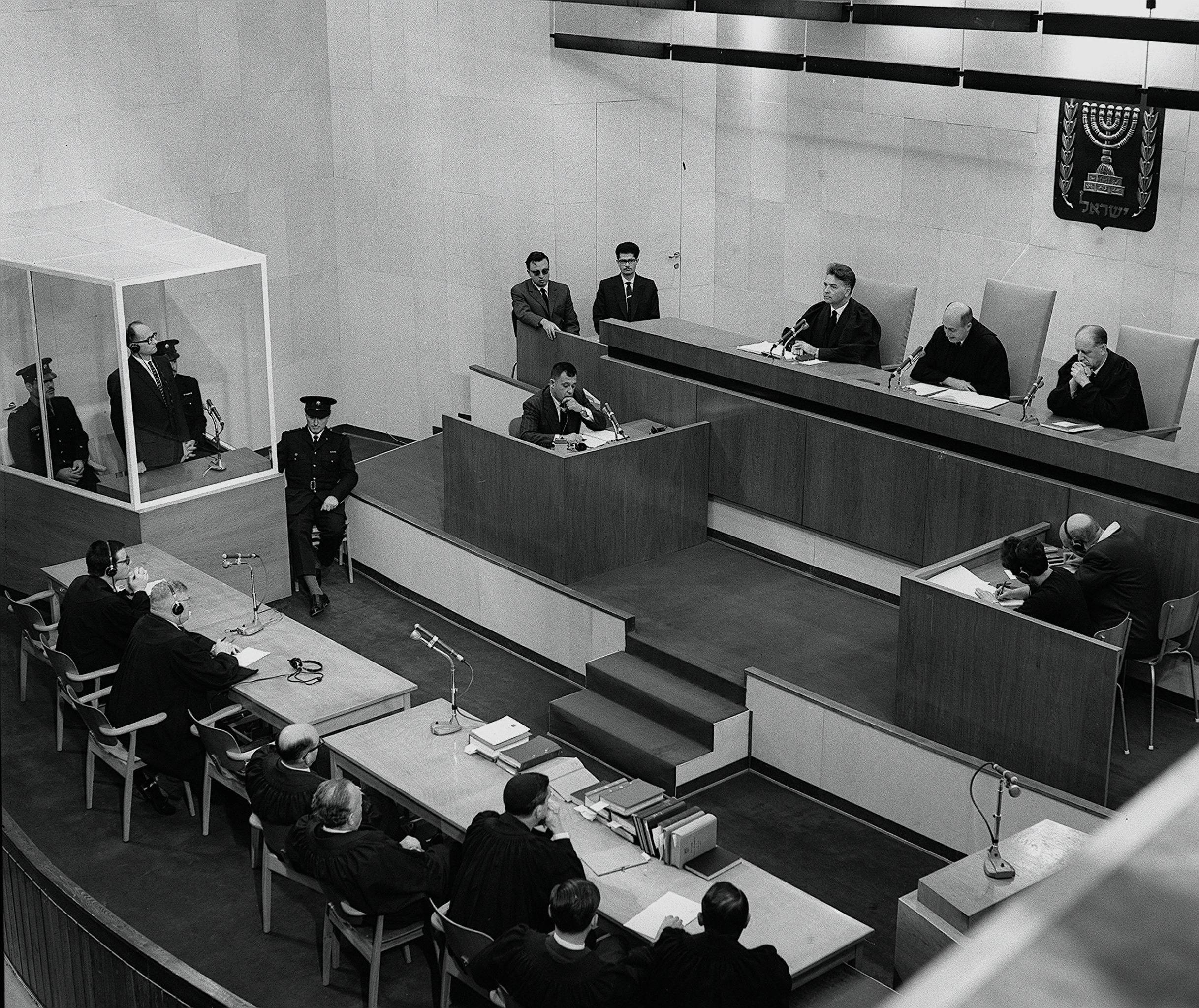 Defendant Adolf Eichmann (inside glas booth) is sentenced to death by the court at the conclusion of the Eichmann Trial. At the left table seated with two persons, the person on the right (with white hair and headphones) is defense counsel Robert Servatius.